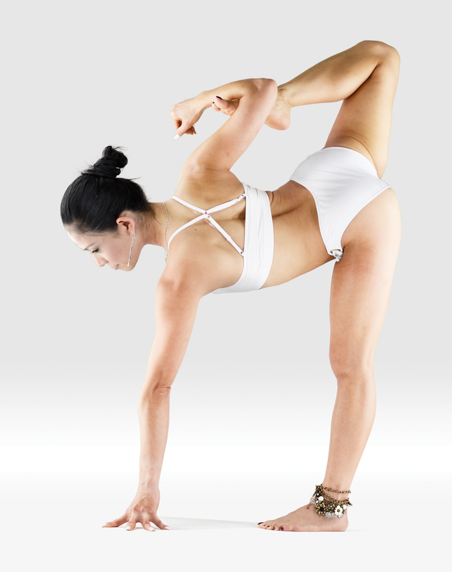 Mr-yoga-mermaid arms half moon bow pose